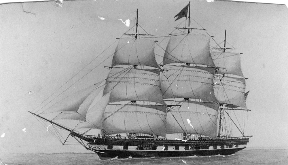 Marco Polo (ship) The sailing ship 'Marco Polo' in full sail.